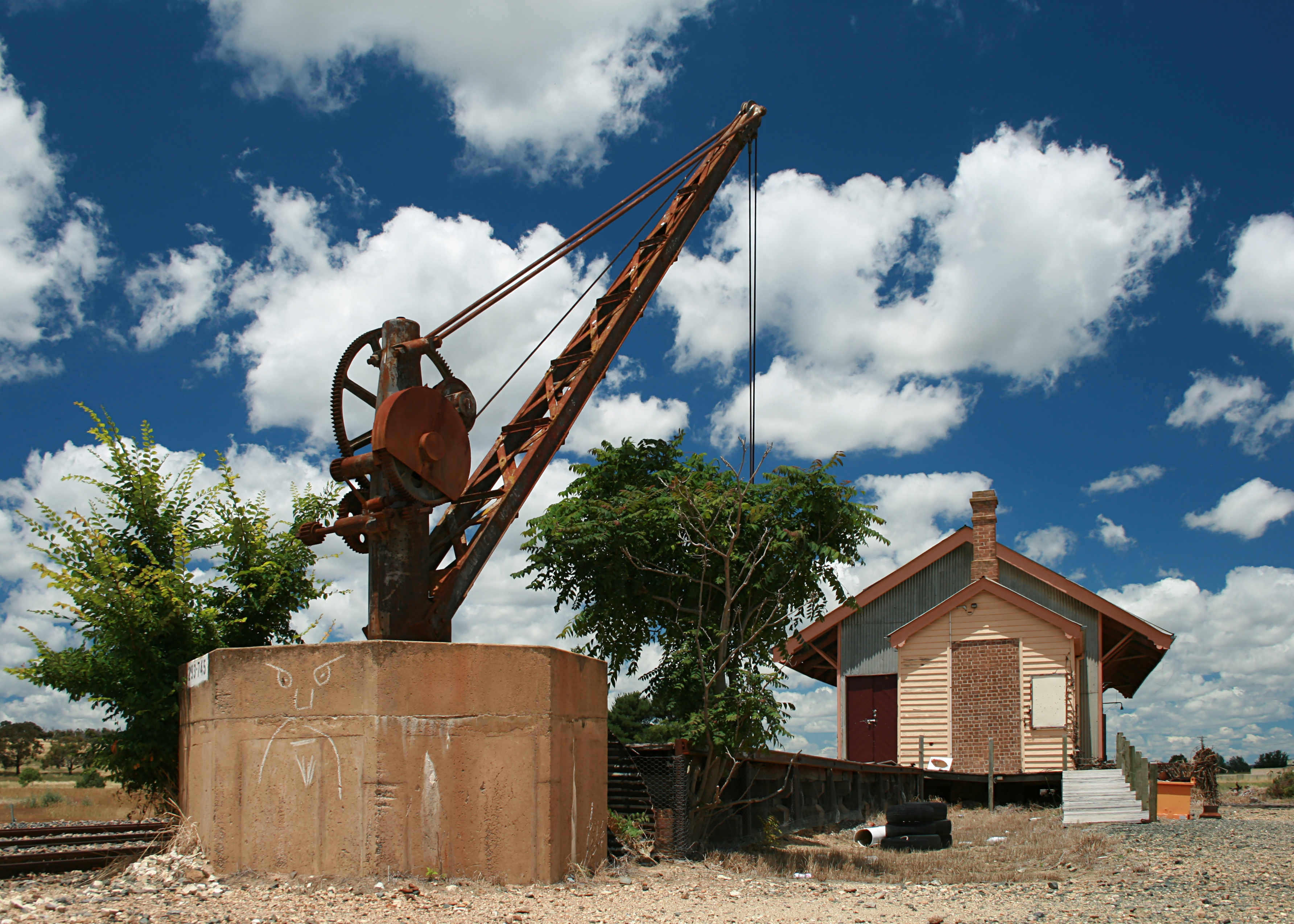 Disused rail platform and loading machinery at Bungendore, New South Wales, Australia.